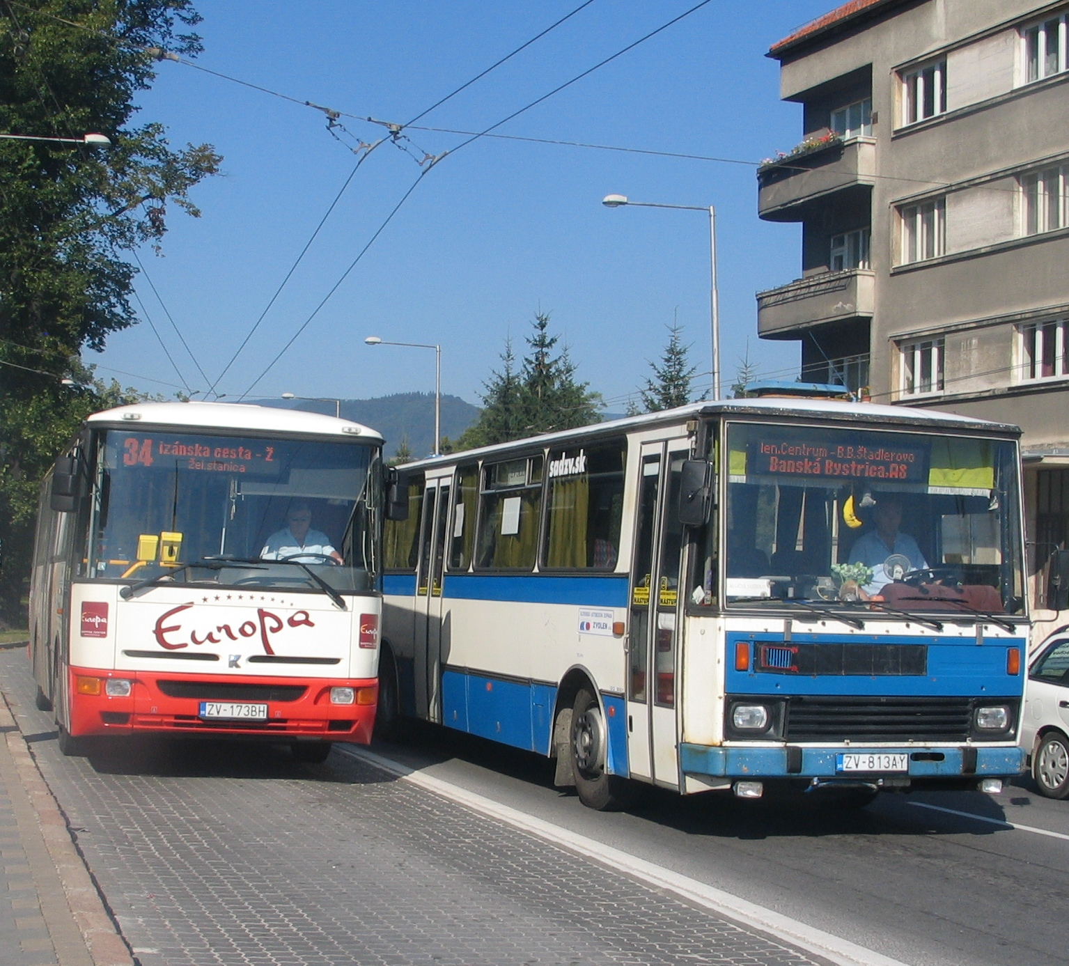 2 buses in Banska Bystrica.